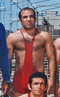 Shahid Heidarnia Stadium (former Mohammad Nassiri and Farah) National Army National Army Corps 1973 - Reza Khorrami (90kg)